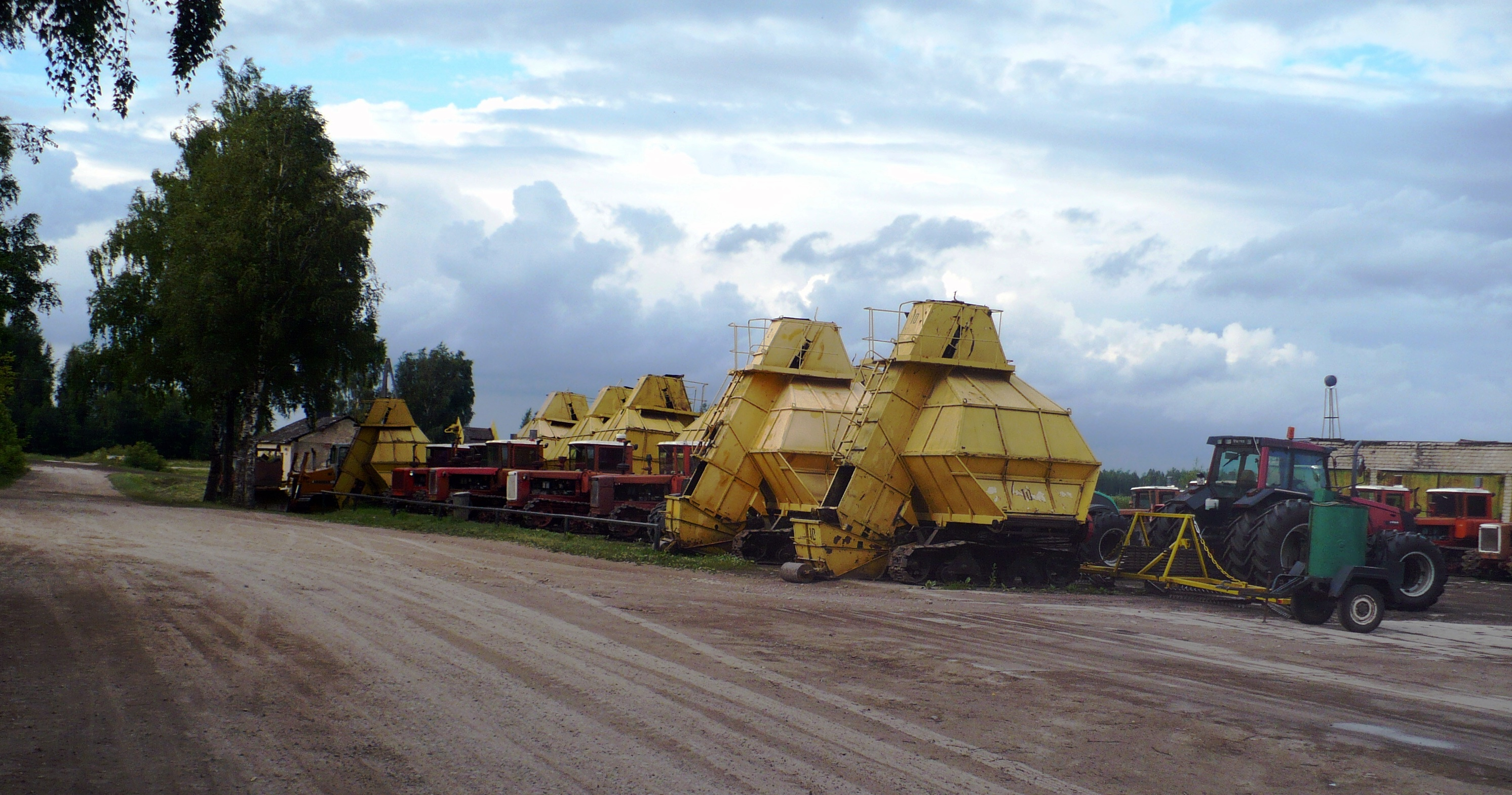 Harvesters for the peat industry in Latvia in June, 2008.